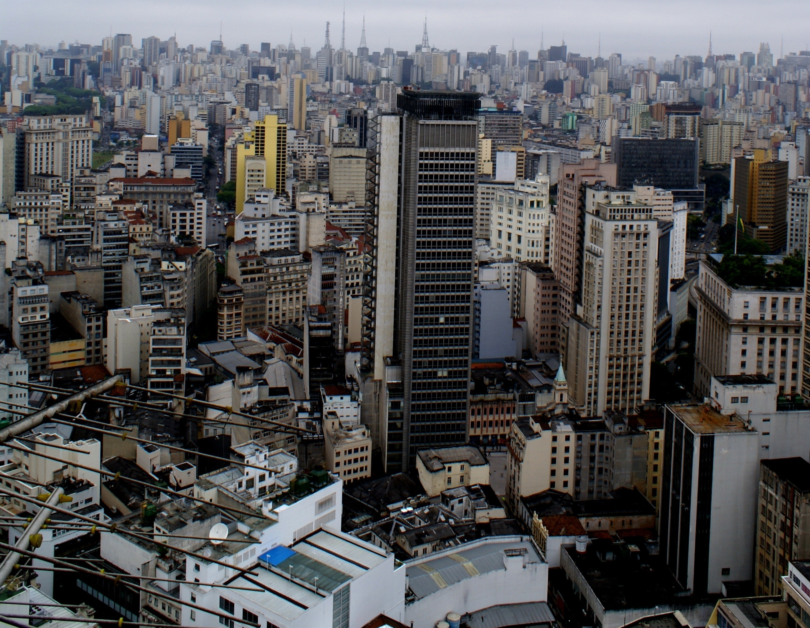 Skyline do Centro Antigo de São Paulo, visto da Torre do Banespa, Brasil. - Skyline of Old Downtown of São Paulo City, see of Banespa Tower, Brazil.